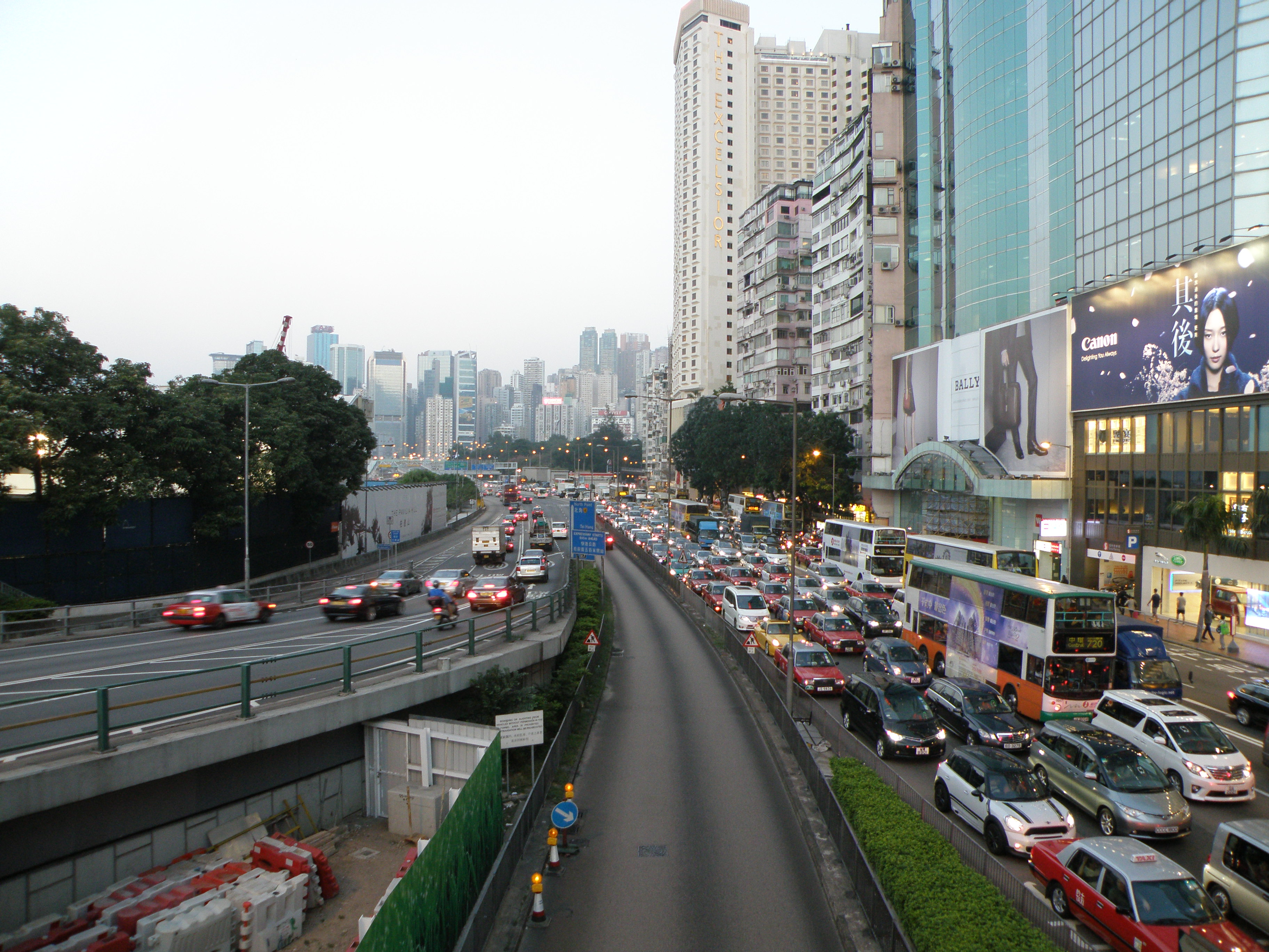 Causeway Bay North Station in Causeway Bay, Hong Kong.